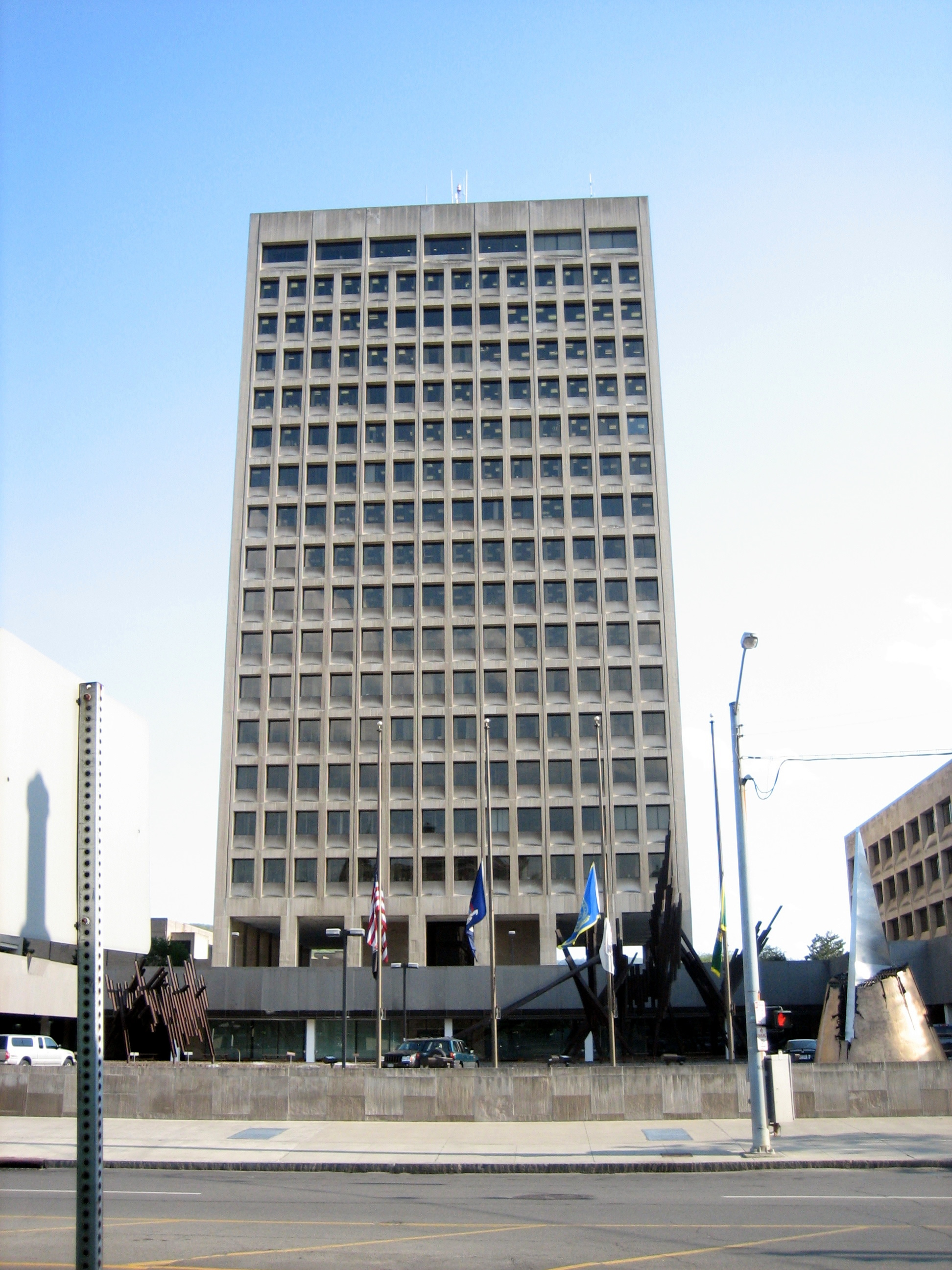 Confluence Park, Binghamton, NY